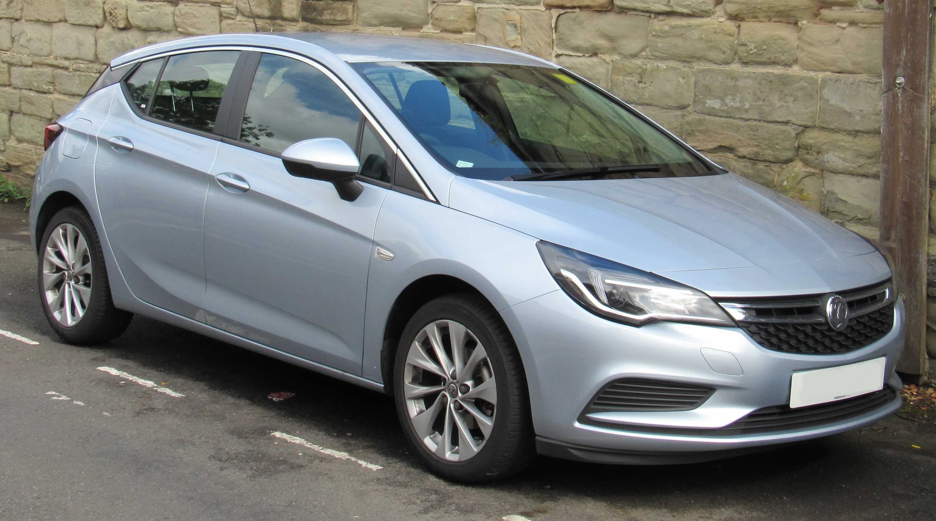 2017 Vauxhall Astra Design 1.4 Front Taken in Warwick